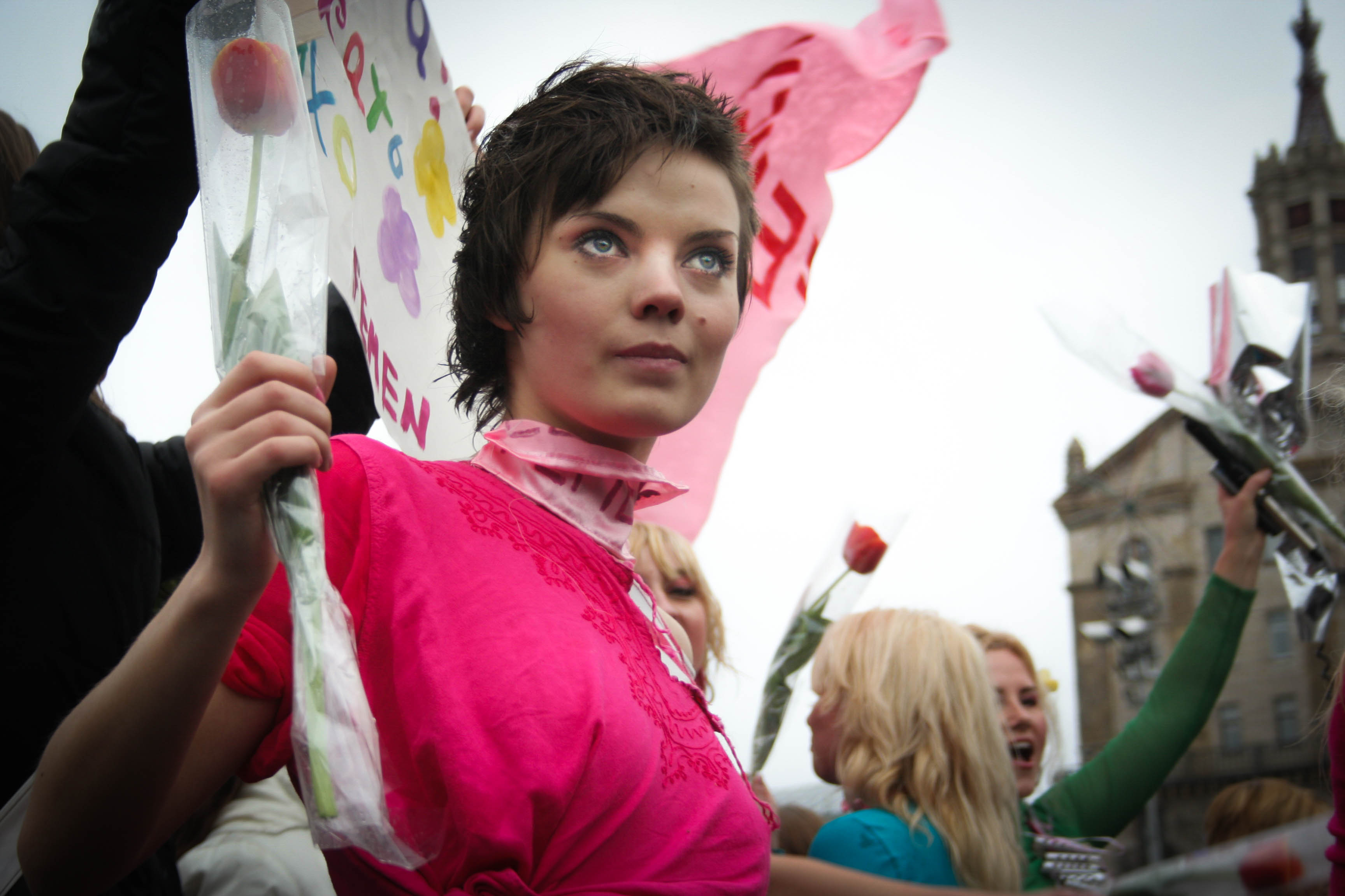 Oksana Shachko